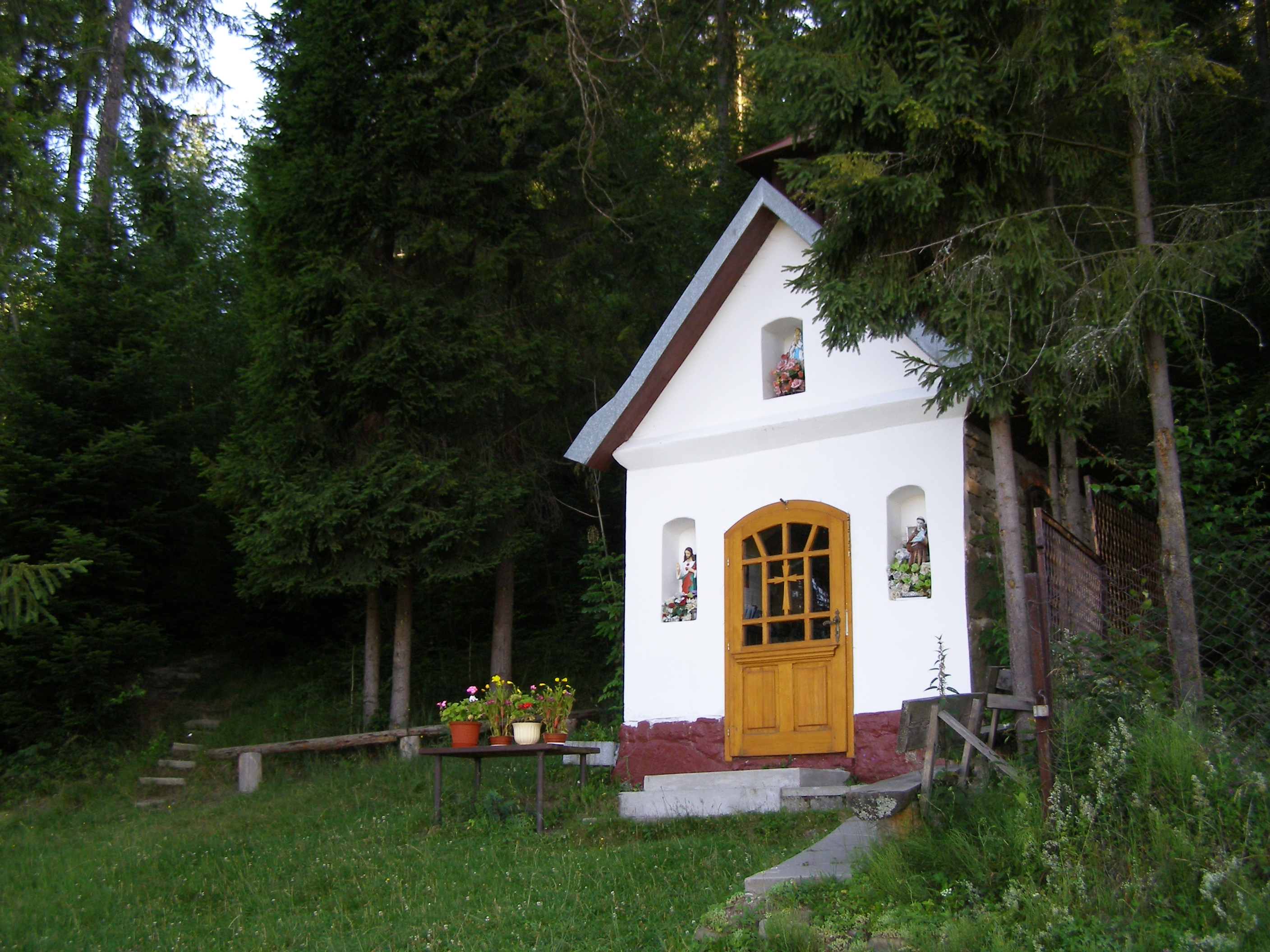 Nowy Targ - a wayside shrine by the road towards Dziubasówki Clearing